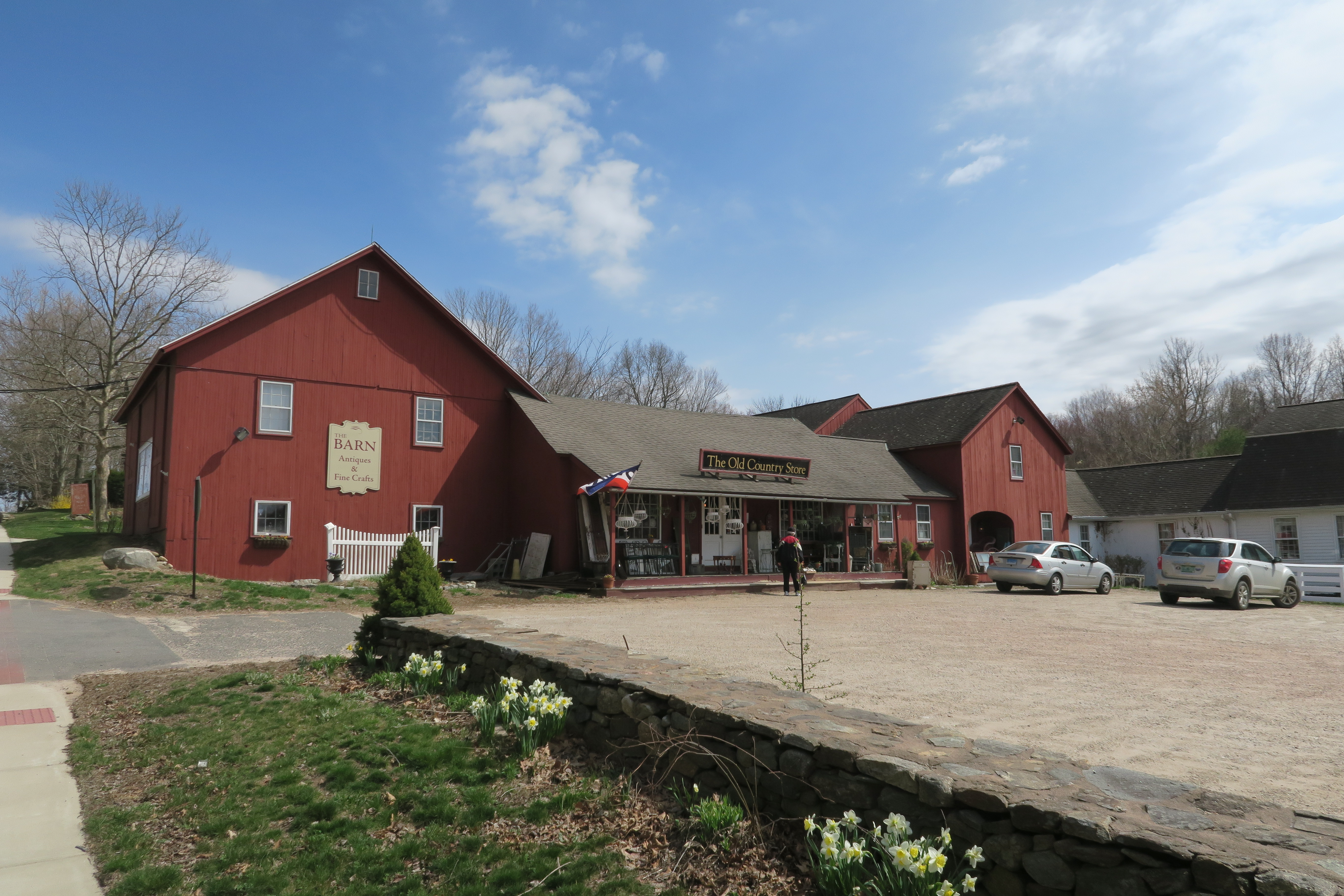 The Old Country Store, Terramuggus Connecticut